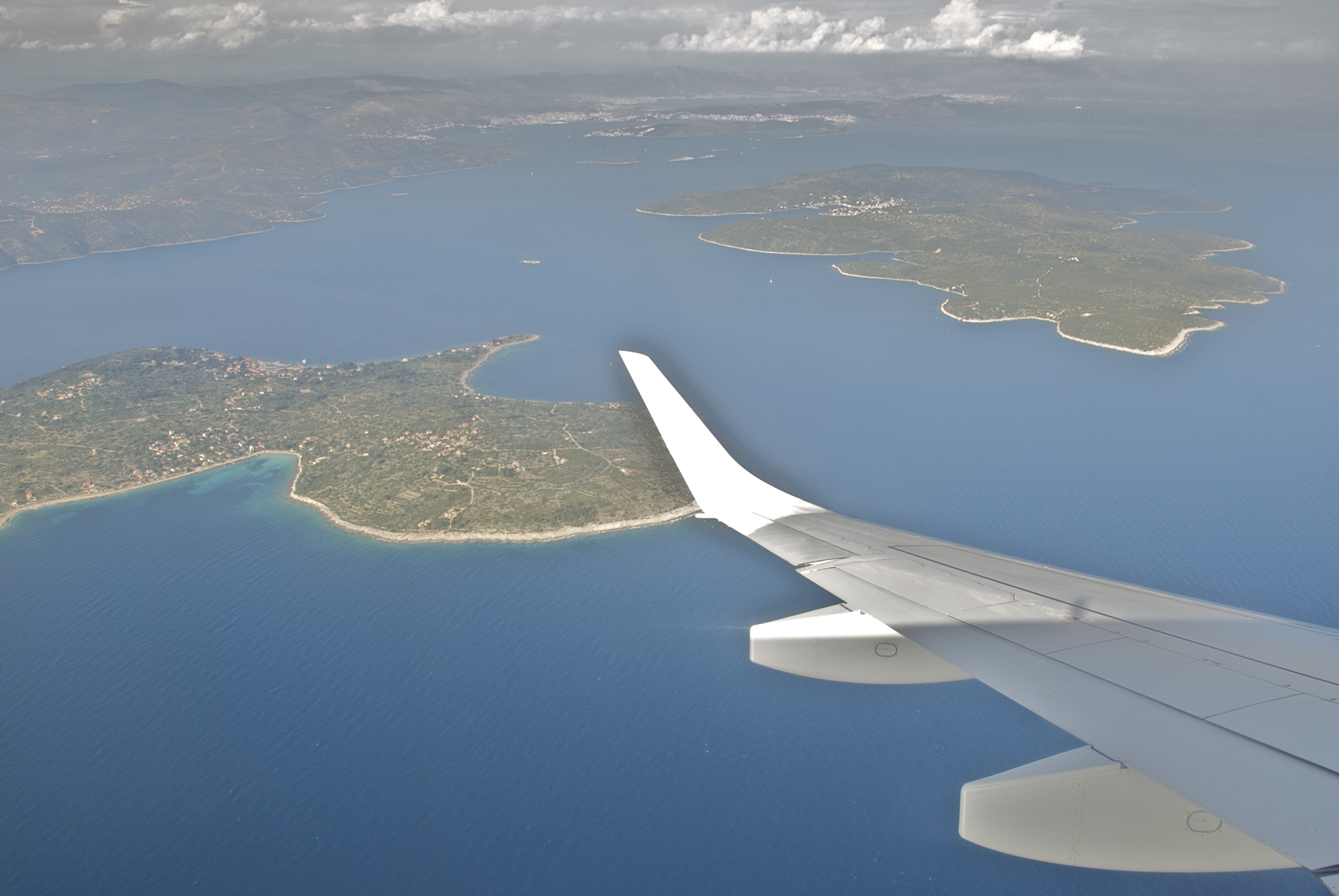 Finals of LH1412 to Split, flight over the Dalmatian coast, June 1, 2012